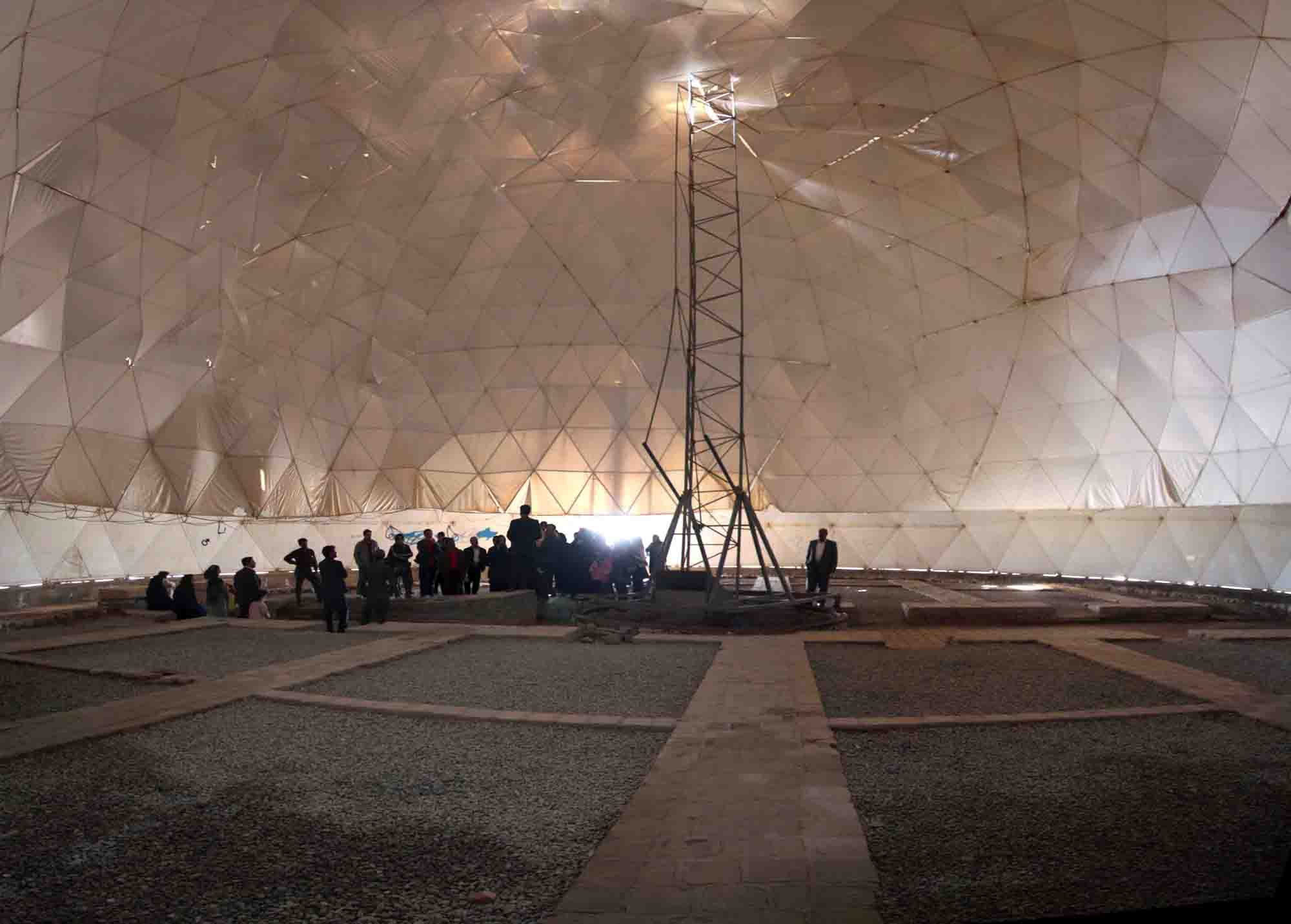 there is nearly no remains :(